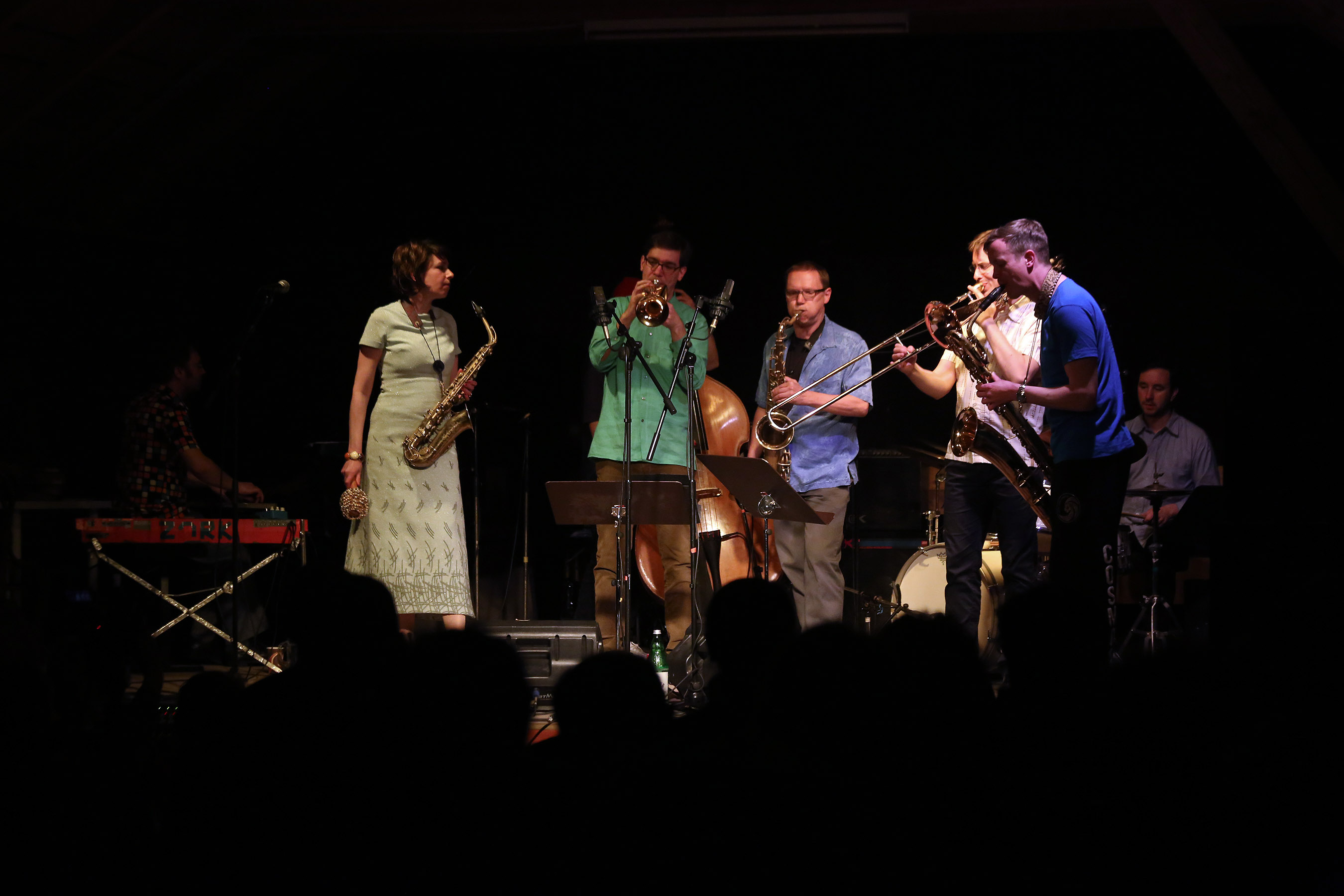 Heliocentric Counterblast; pictured standing from left to right: Kathrin Lemke, Nikolaus Neuser, Dirk Steglich, Florian Juncker, Andreas Dormann und Philipp Bernhardt;Ulrichsberger Kaleidophon 2013 (Ulrichsberg, Upper Austria)